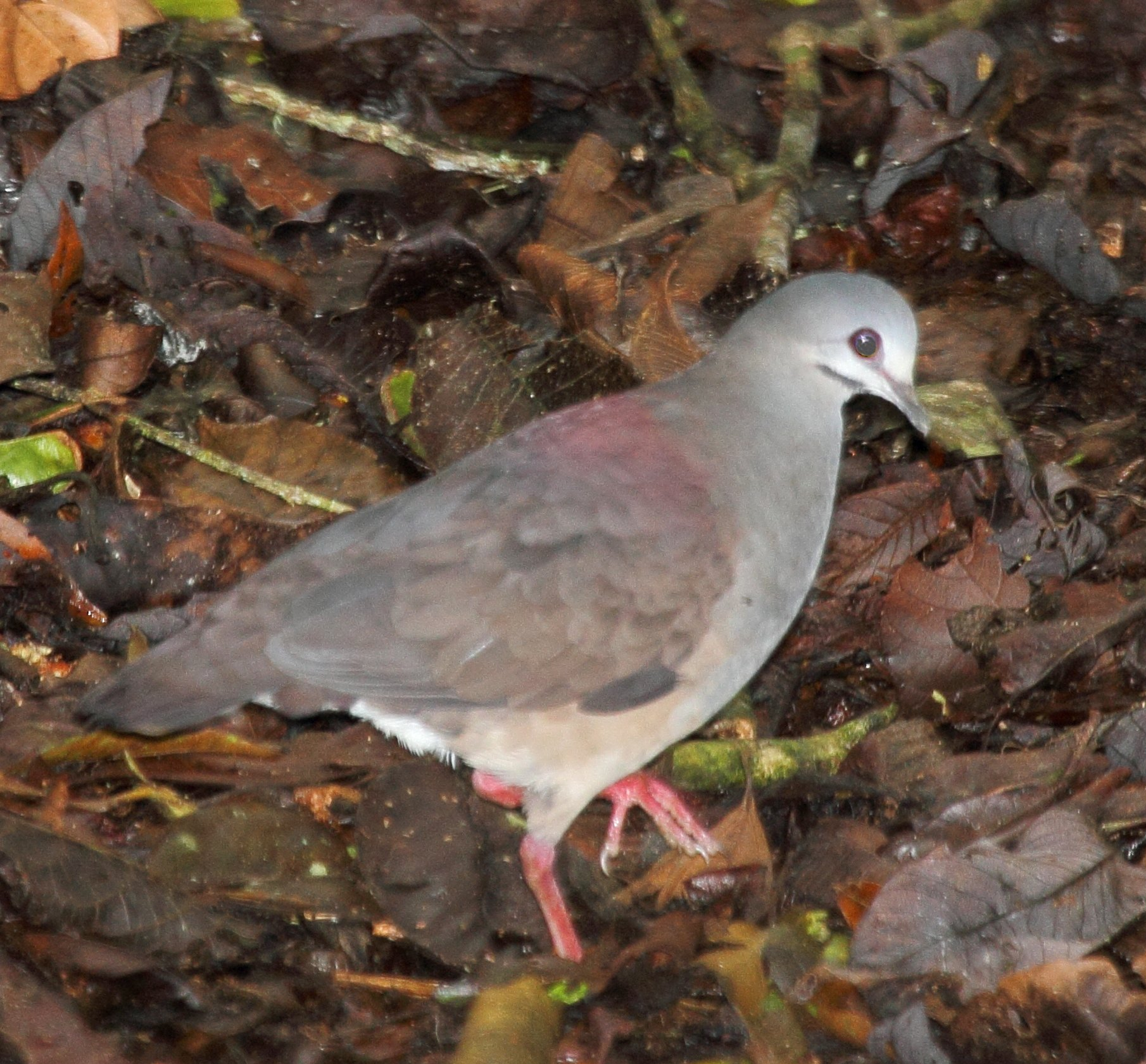 Purplish-backed Quail-Dove (Geotrygon lawrencii). Photographed at Rancho Naturalista, in Costa Rica.